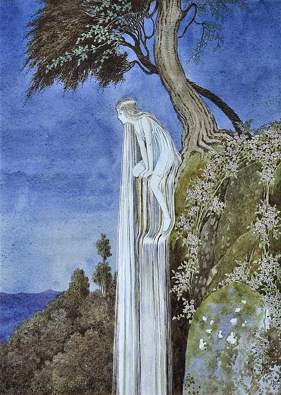 The Waterfall Fairy by Ida Rentoul Outhwaite From: 'The Enchanted Forest', 1921